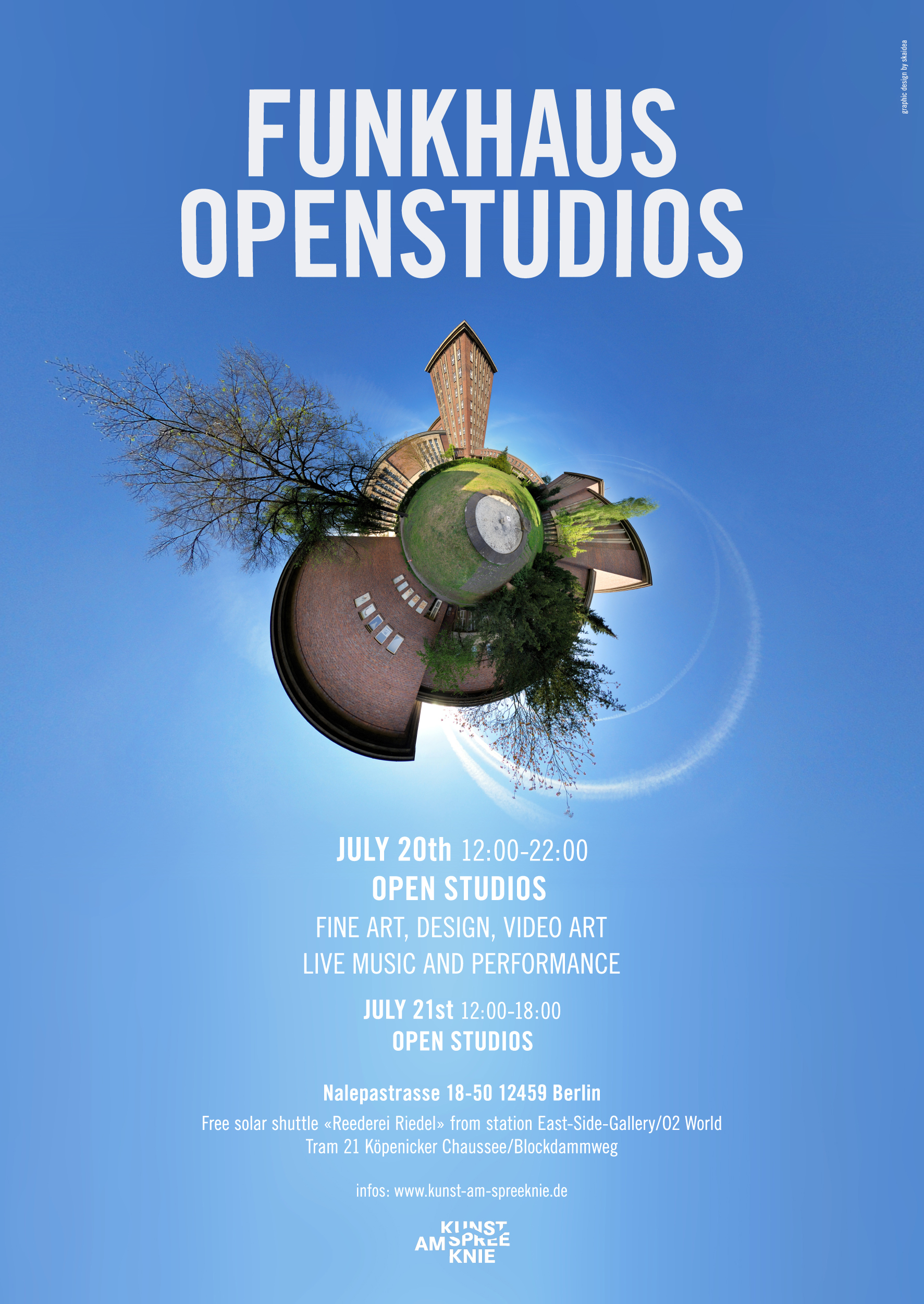 poster for the event „openstudios“ at 2013-07-20&21 – self-organized by the artists in Funkhaus Berlin, Nalepastraße, Block A, part of the exhibition „Kunst-am-Spreeknie“ in Berlin-Oberschöneweide.